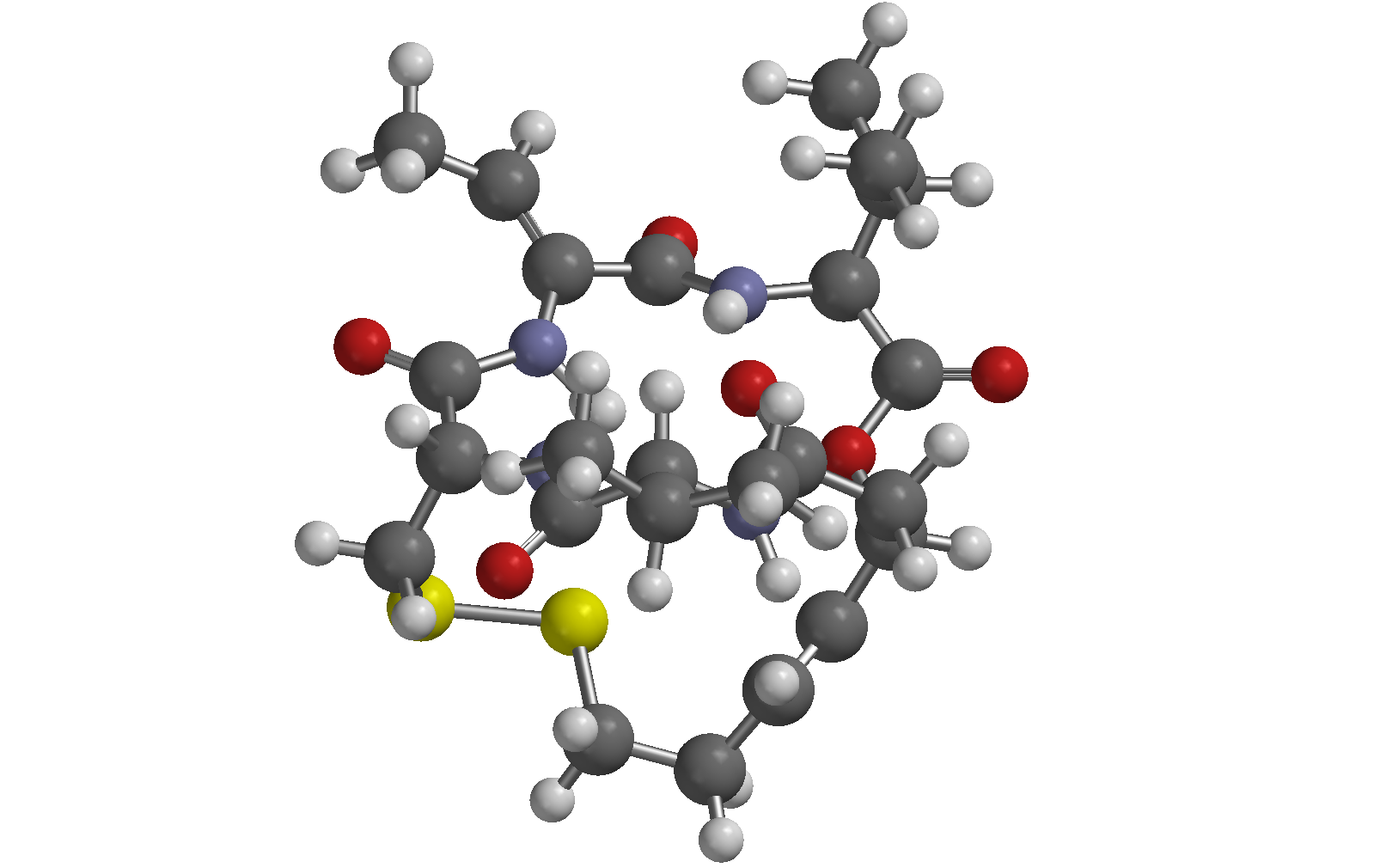 ball-and-spoke 3D model image of the anticancer drog romidepsin